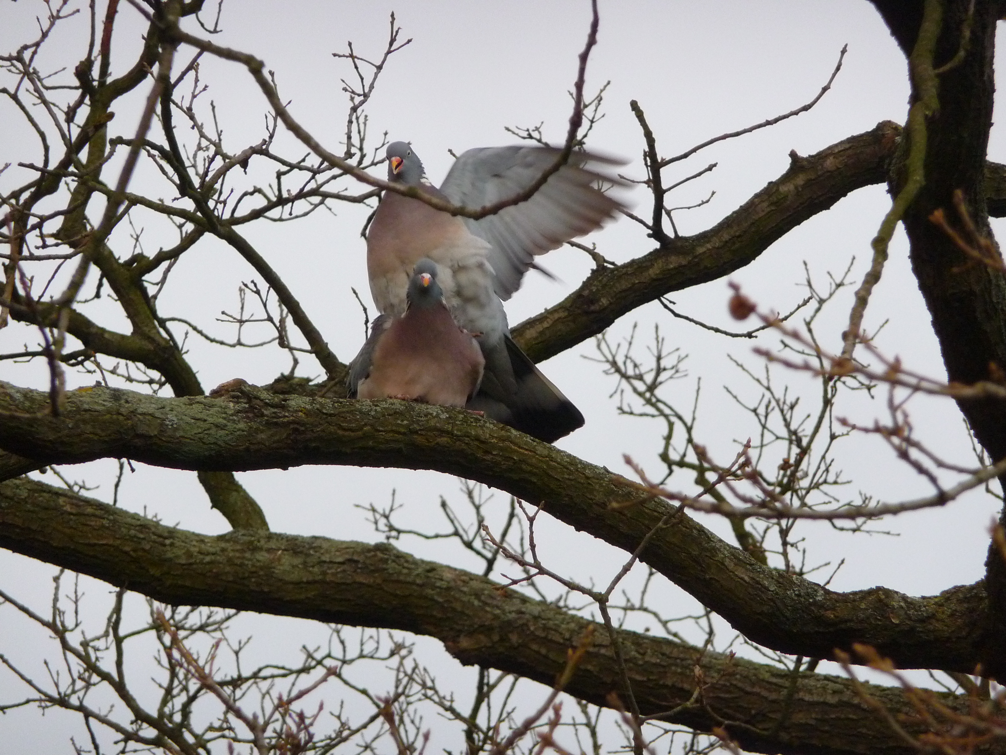 Two Common Wood Pigeons copulating in Heidelberg, Germany.